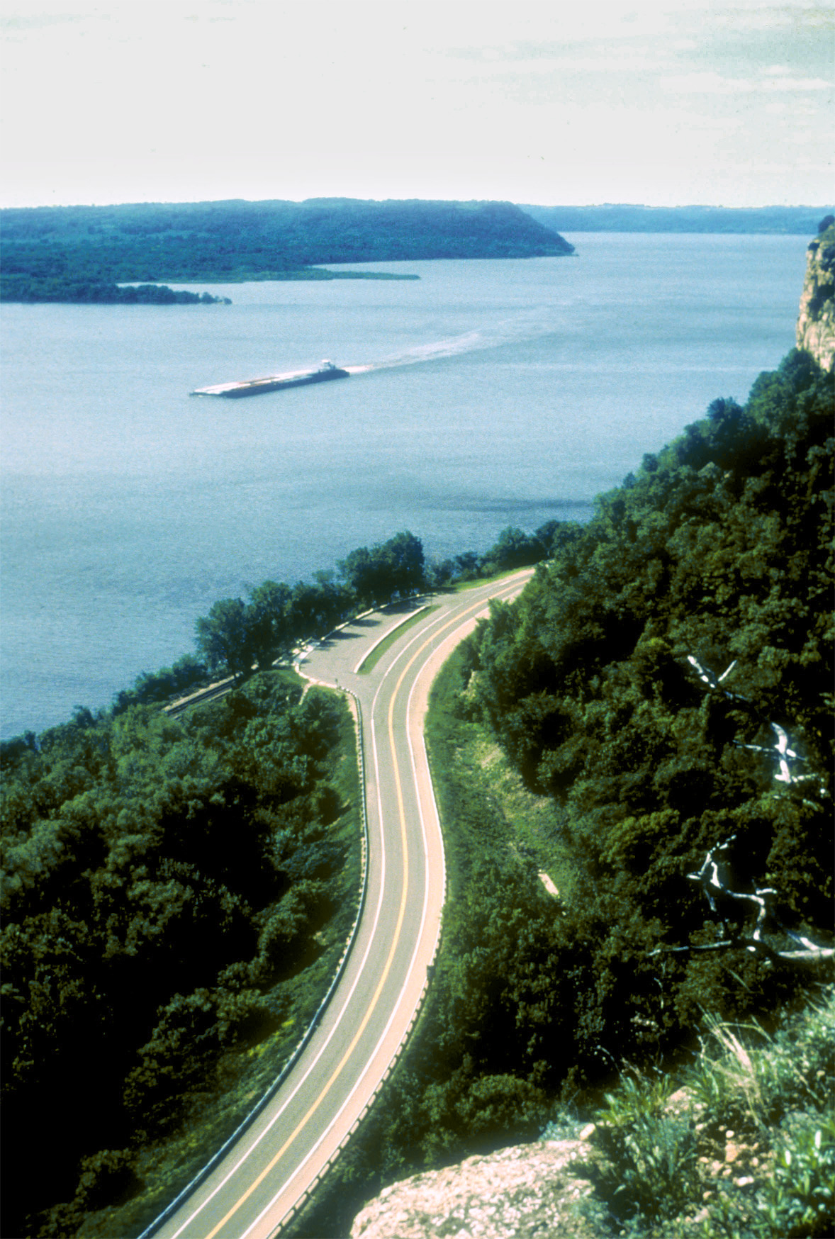 Wisconsin Great River Road, Mississippi River, and bluffs. Public domain photo.